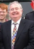 Pat Rabbitte, Labour